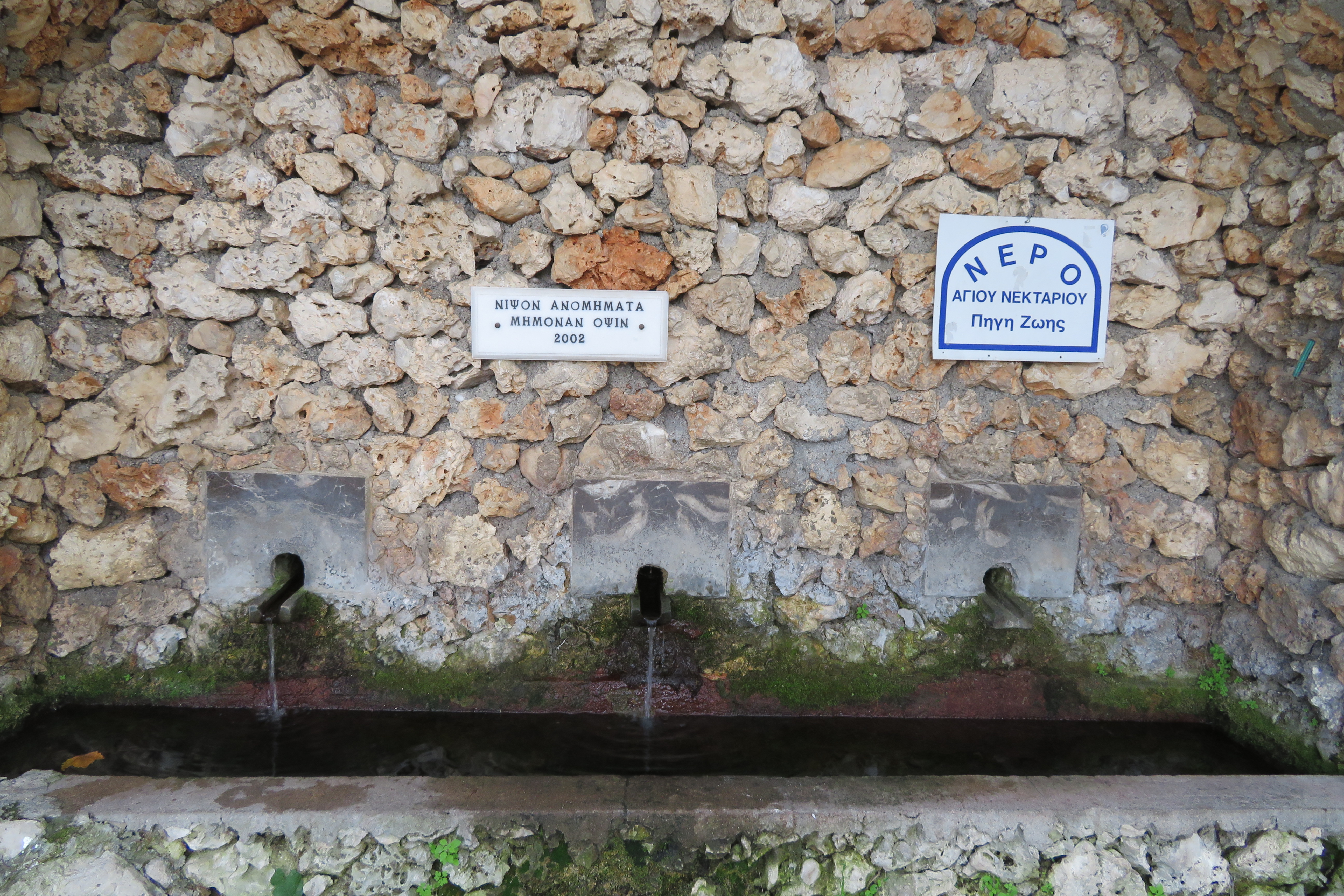 Fountain named Pigi Zois (Source of Life), Rhodos